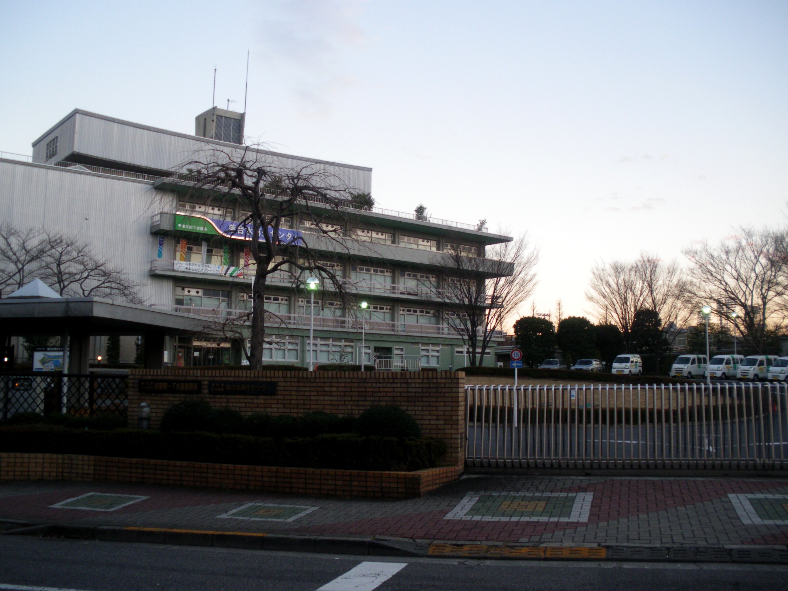 A photo of Ochiai Sewage Plant,Kamiochiai,Shinjuku-ku,Tokyo,Japan.